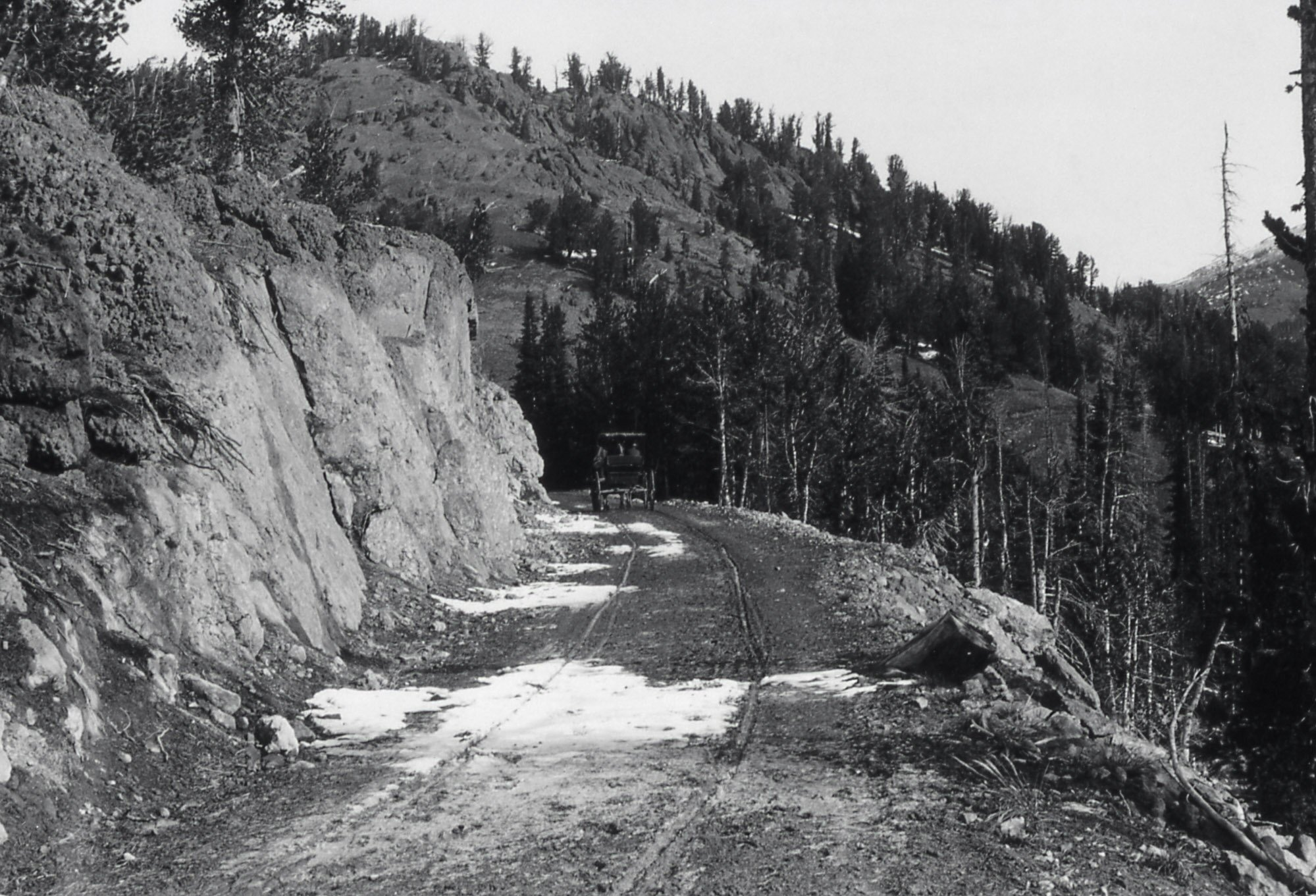 Vehicle on Dunraven Pass, circa 1918, Yellowstone National Park